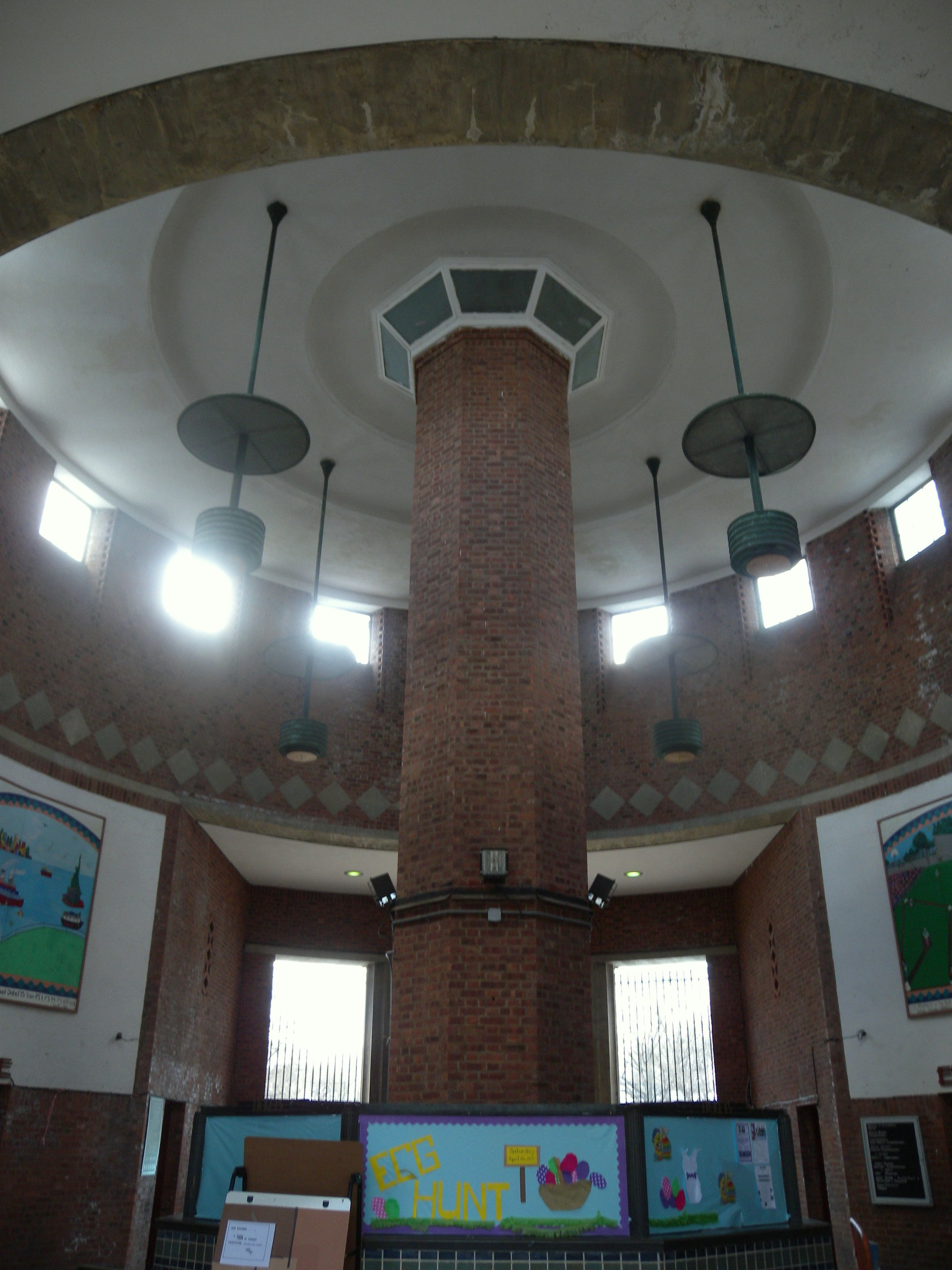 looking northwest from the door at interior column in Sunset Play Center on a mostly sunny afternoon.